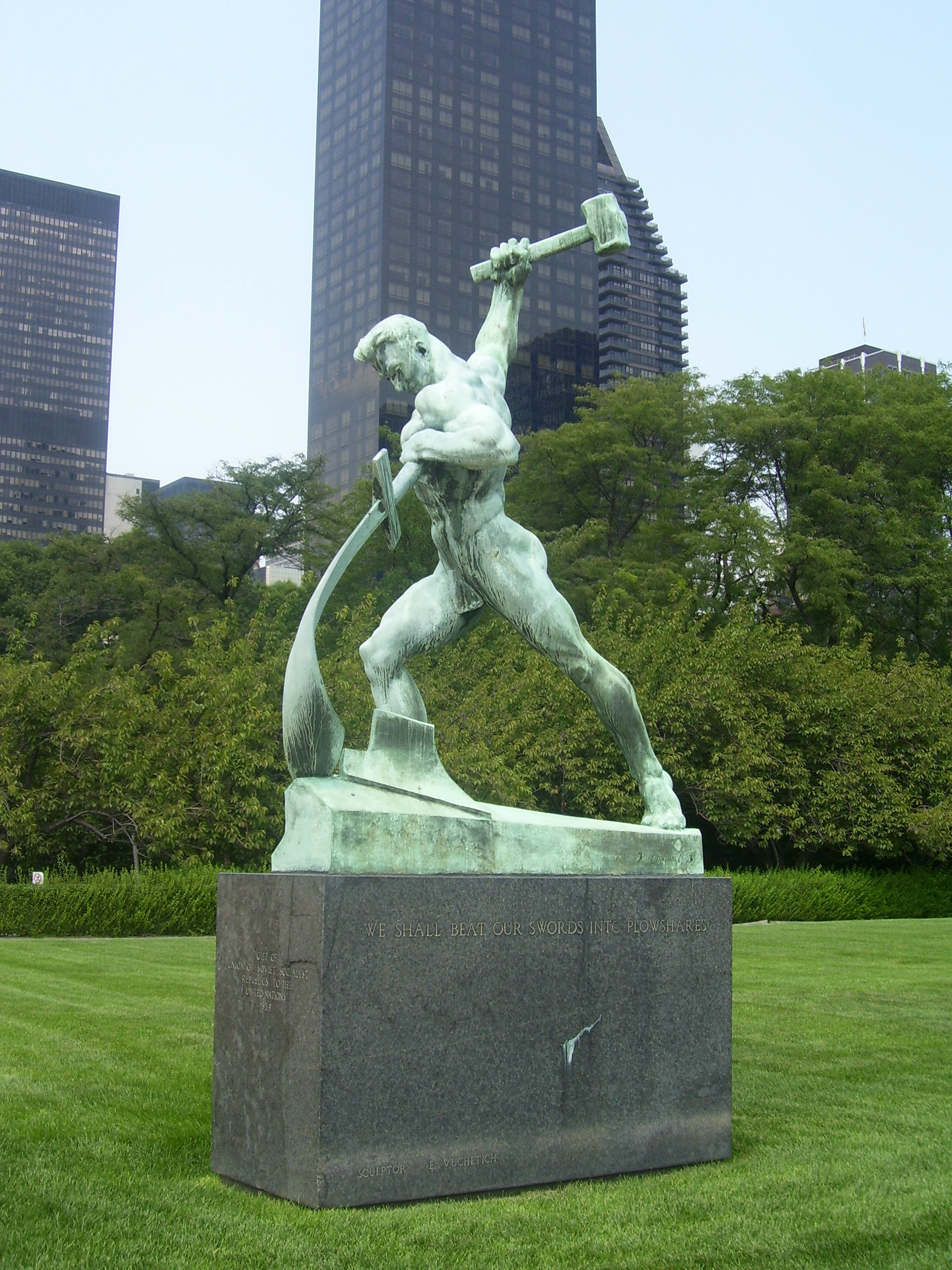 Let Us Beat Swords Into Plowshares statue at the United Nations Headquarters, New York City. Photograph credit: Rodsan18